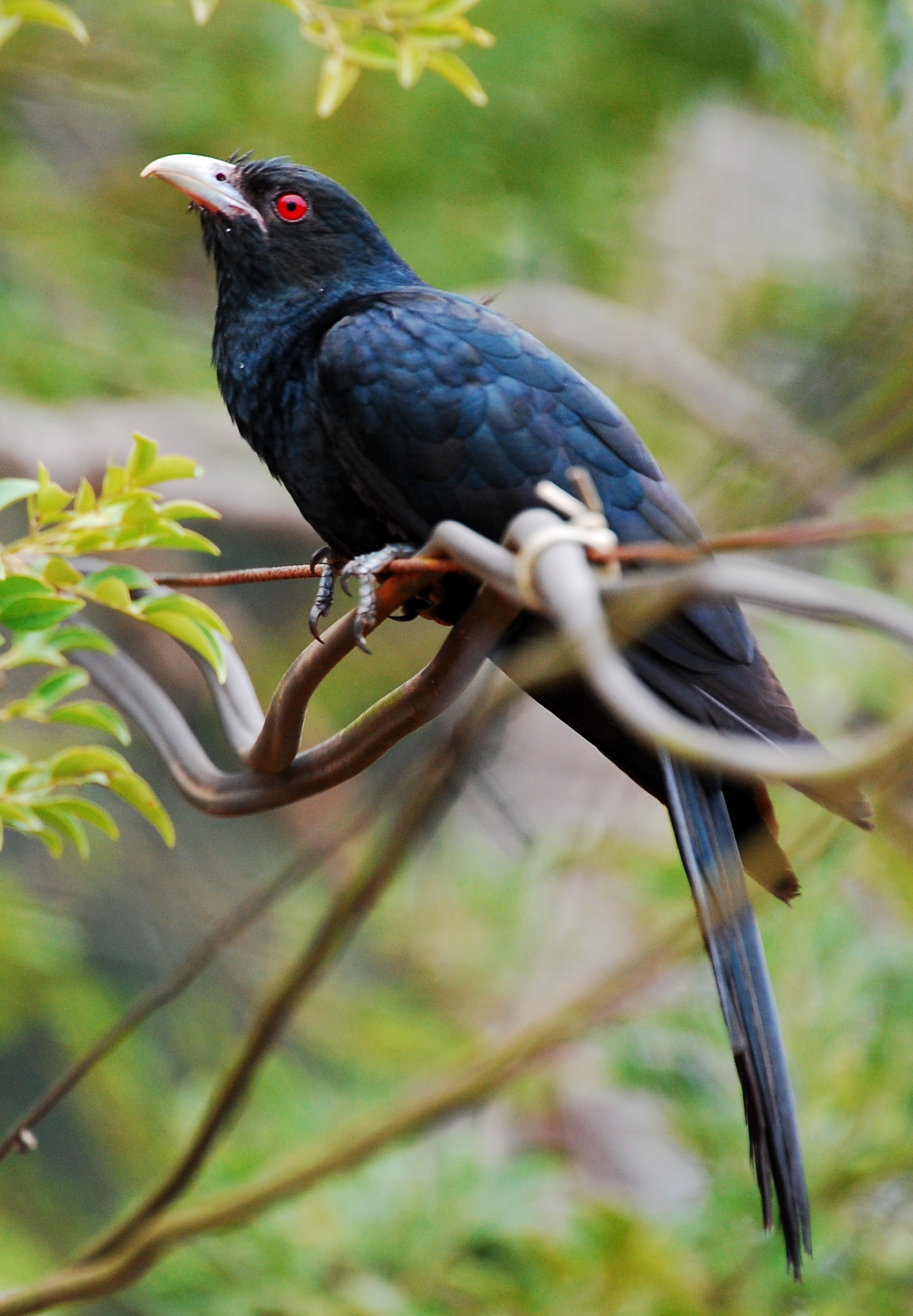 Asian Koel Eudynamys scolopaceus shot at chalakudy Kerala India